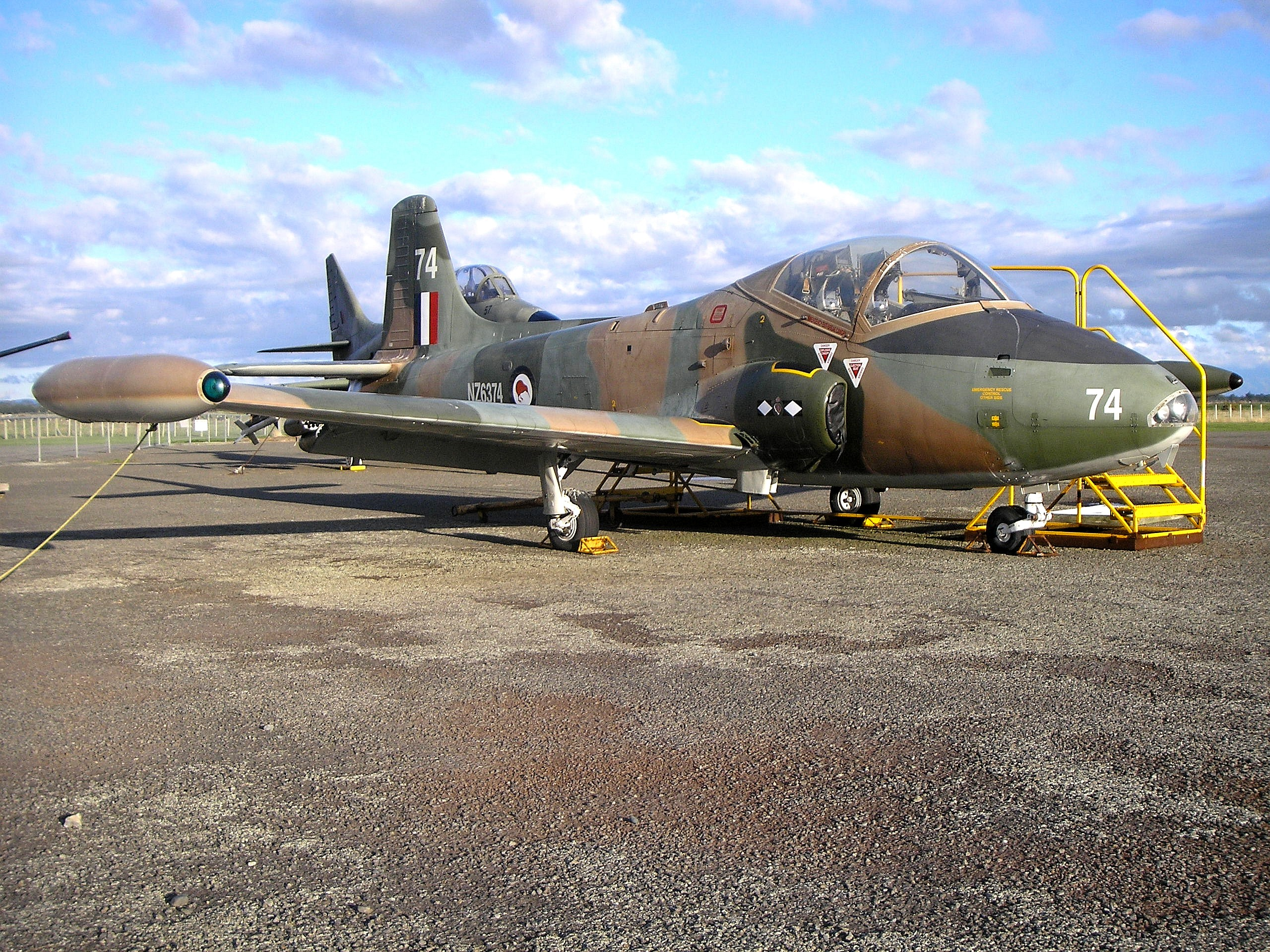 A BAC Strikemaster Mk88 of the RNZAF photographed outside the Ohakea wing of the Royal New Zealand Air Force Museum in May 2007, a week before the museum closed. The type was retired from RNZAF service in 1993. This aircraft is G27-243 / NZ6373. Delivered to RNZAF May 1975 it arrived in New Zealand in July of that year at Wellington and was assembled by the RNZAF. This aircraft spent it's entire operating life with No. 14 Squadron RNZAF.